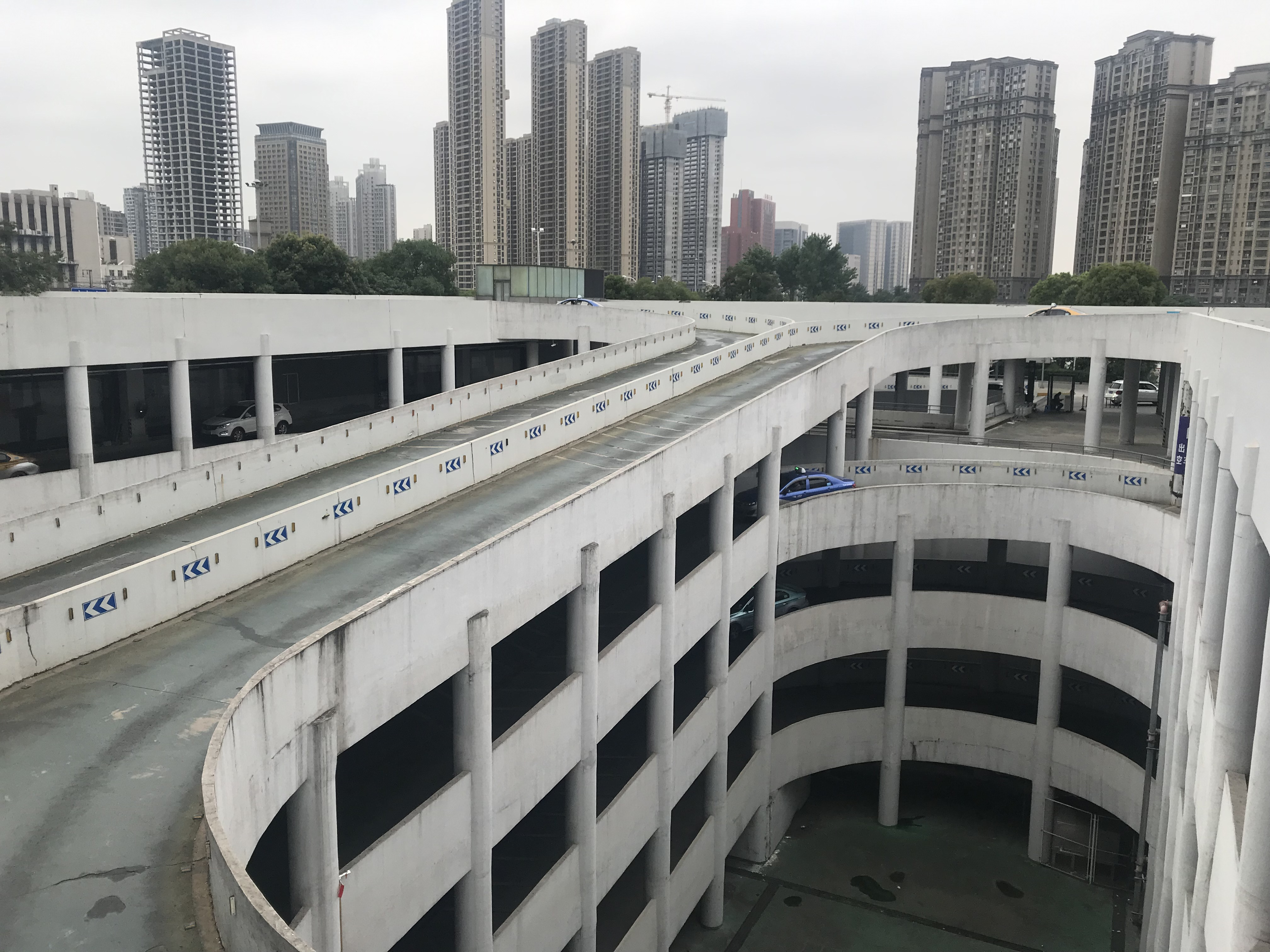 From Drop off to the taxi stands on the -1F